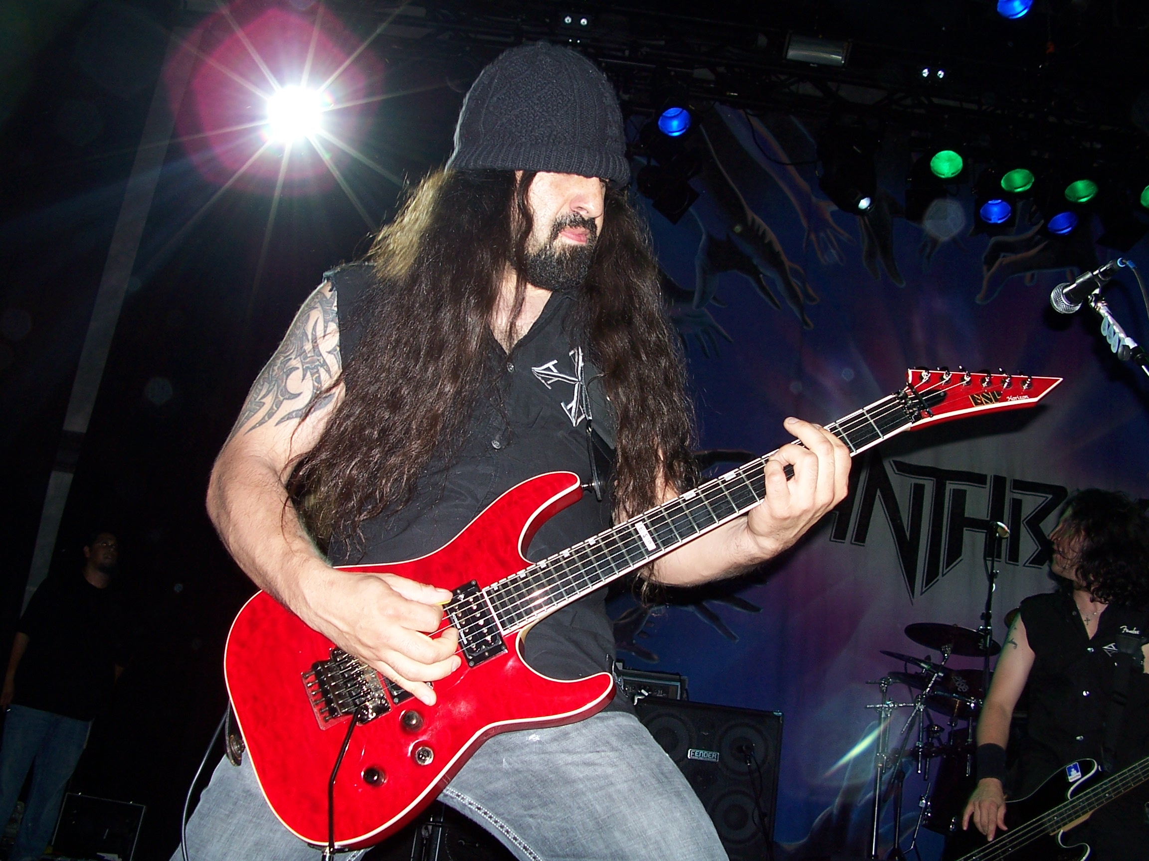 The American heavy metal band Anthrax performing at Paard van Troje, The Hague, The Netherlands on 2009-06-30.